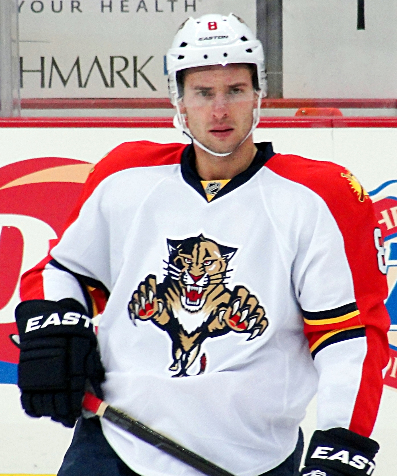 Florida Panthers forward Wojtek Wolski skates against the Pittsburgh Penguins, March 9, 2012 at Consol Energy Center in Pittsburgh, PA.